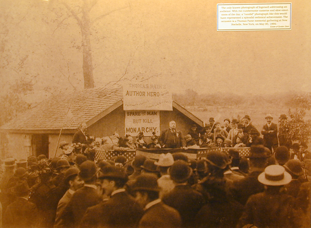 Due to the limitations of early cameras, this is the only known image of American orator Robert G. Ingersoll before an audience.